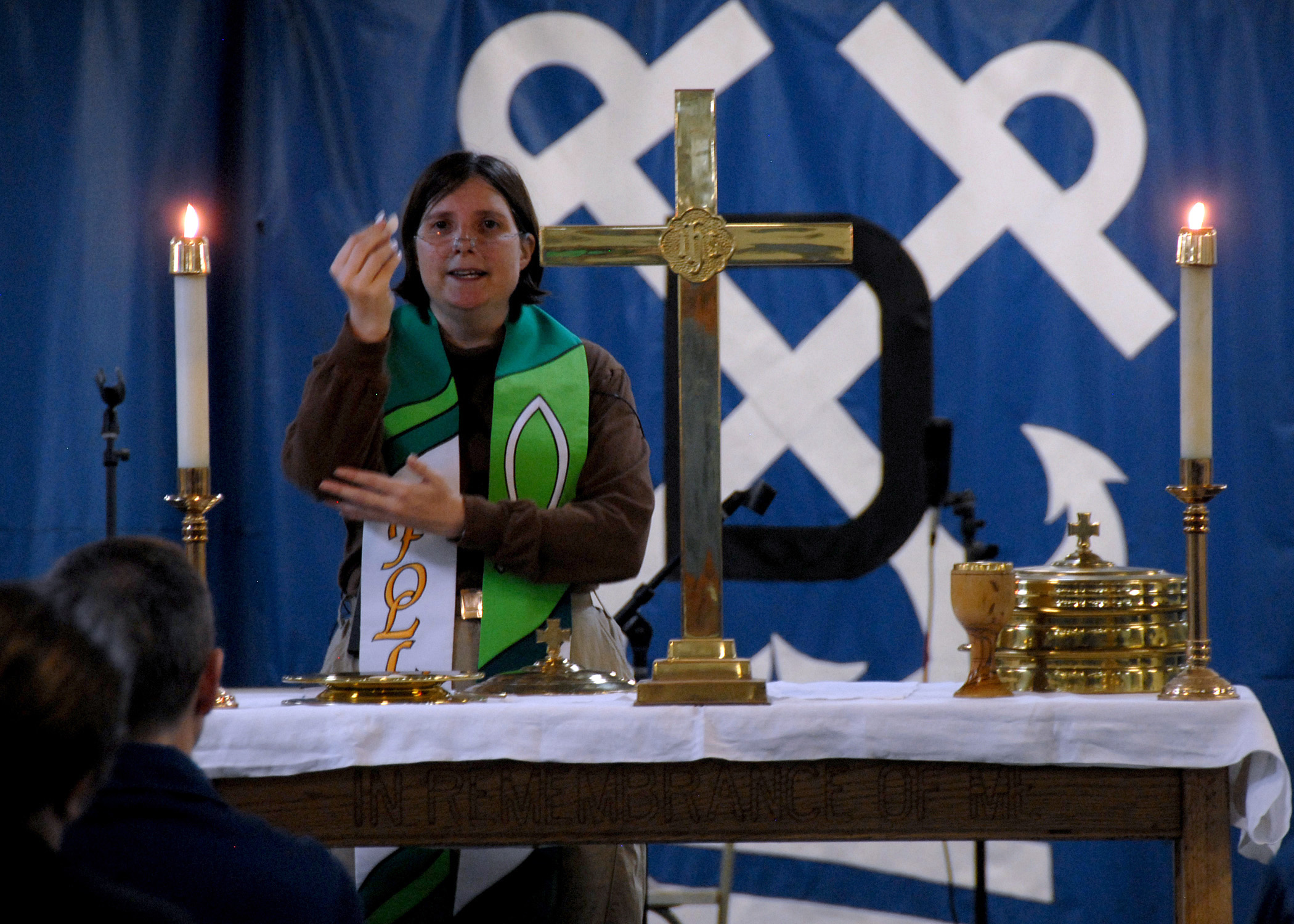 PERSIAN GULF (June 15, 2008) Chaplain Lt. Barbara Wood preparing communion during a Sunday morning service aboard Nimitz-class USS Abraham Lincoln (CVN 72). Lincoln is deployed to the U.S. 5th Fleet area of responsibility supporting maritime security operations. U.S Navy photo by Aviation Electronics Technician Airman Ashley Houp (Released)